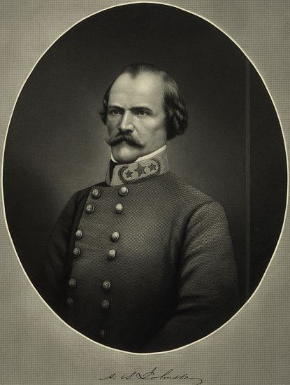 General Albert Sidney Johnston, C.S.A., head and shoulders portrait.